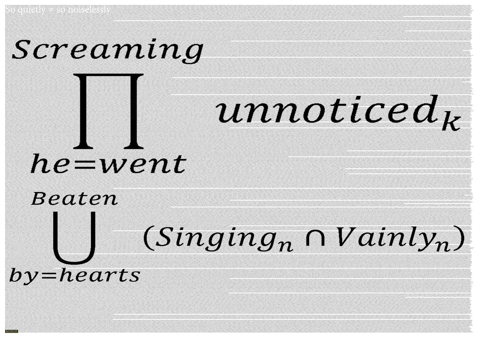 An example of poetry equations from a book published in 2019 entitled DNA Leinwänden der Poesie.